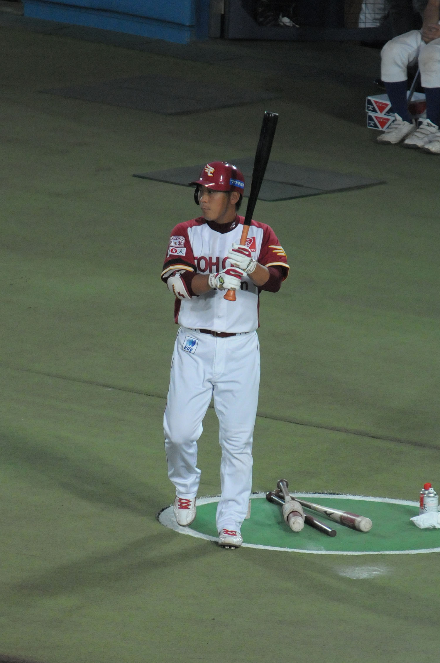 Daisuke Kusano, infielder of the Tohoku Rakuten Golden Eagles, at Akita Prefectural Baseball Stadium.